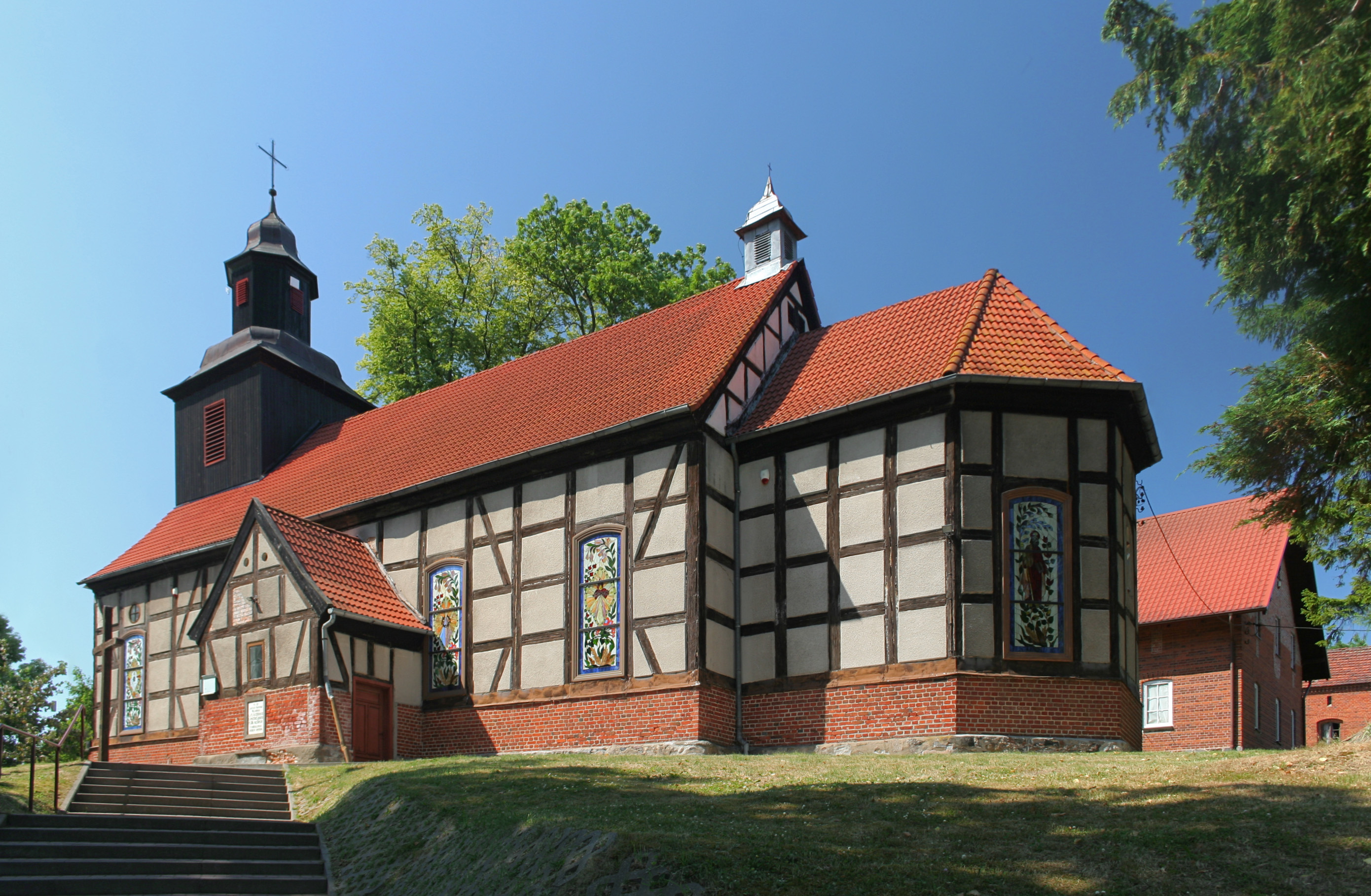 Church of St. Jacob and St. Micholas in Mechowo.